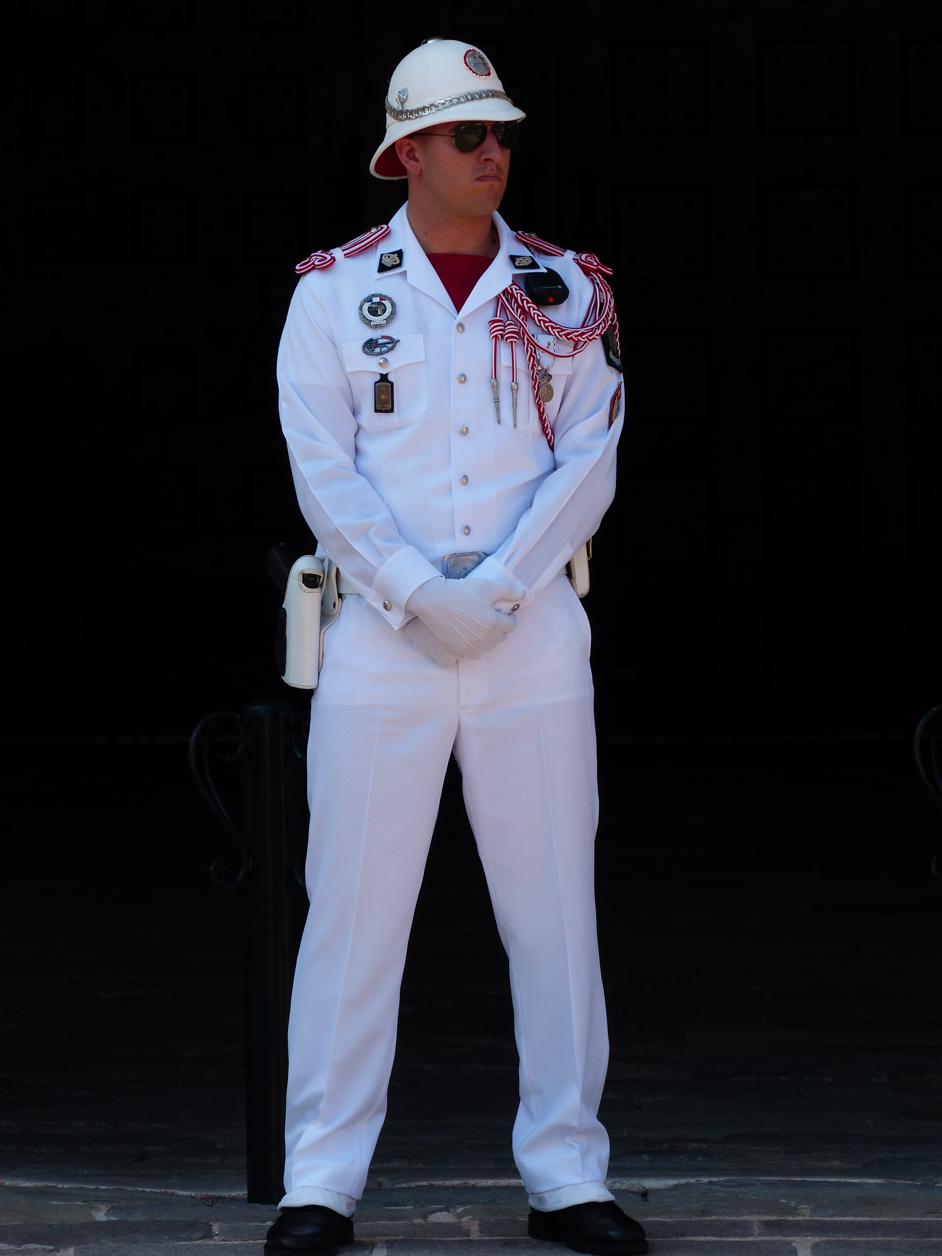 palace guard in Monaco